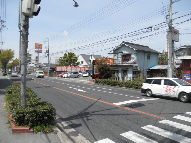 Ikawadanitown Arise Nishu-ku Kobecity Hyogoprefectural road 21 Kobe Akashi line